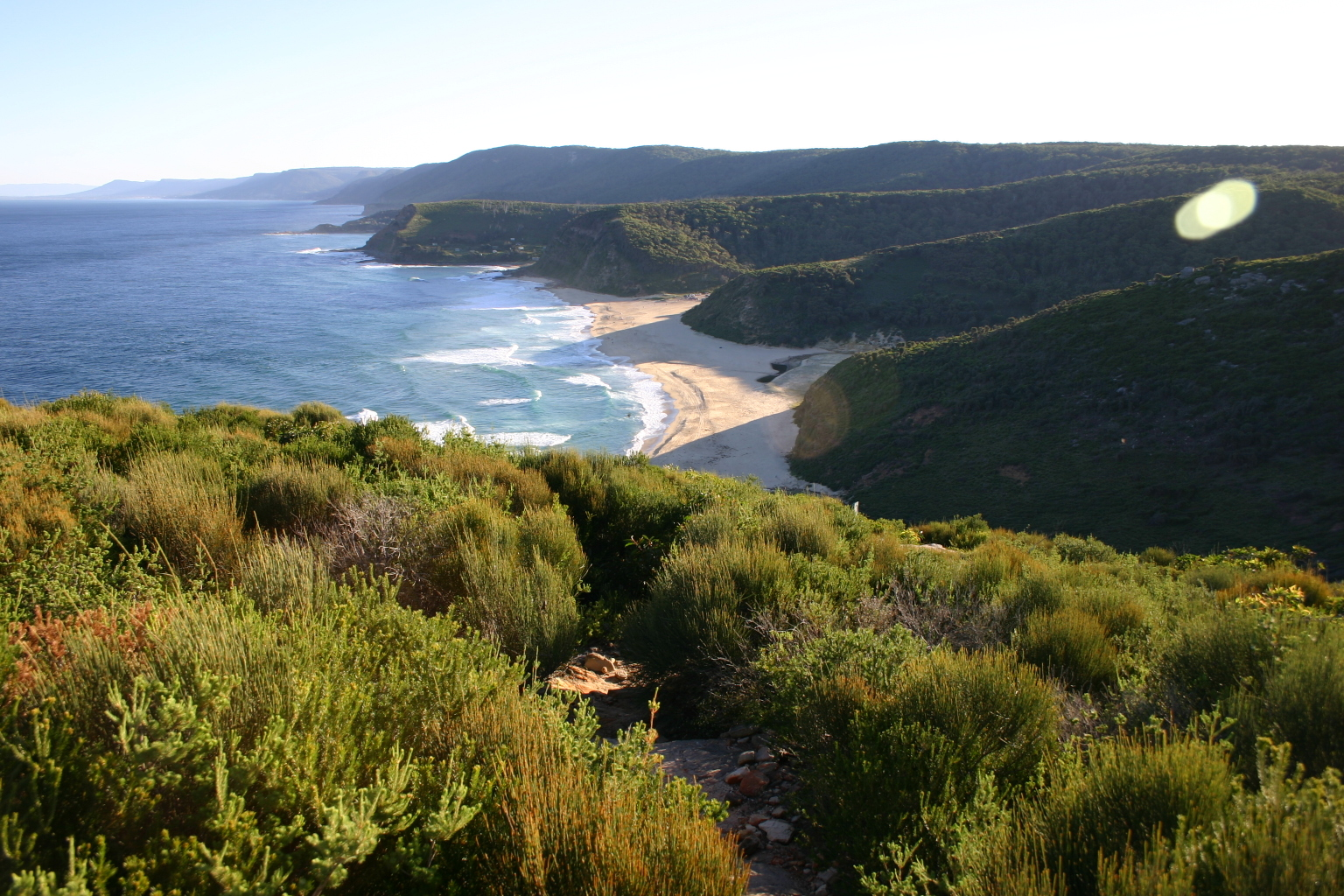 Garie Beach, Royal National Park, Australia: Late afternoon view of Garie Beach from nearby cliffs.